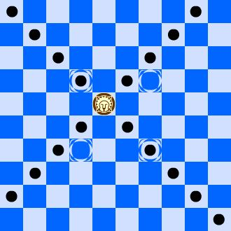 Diagram of the moves of a lion in Barca board game